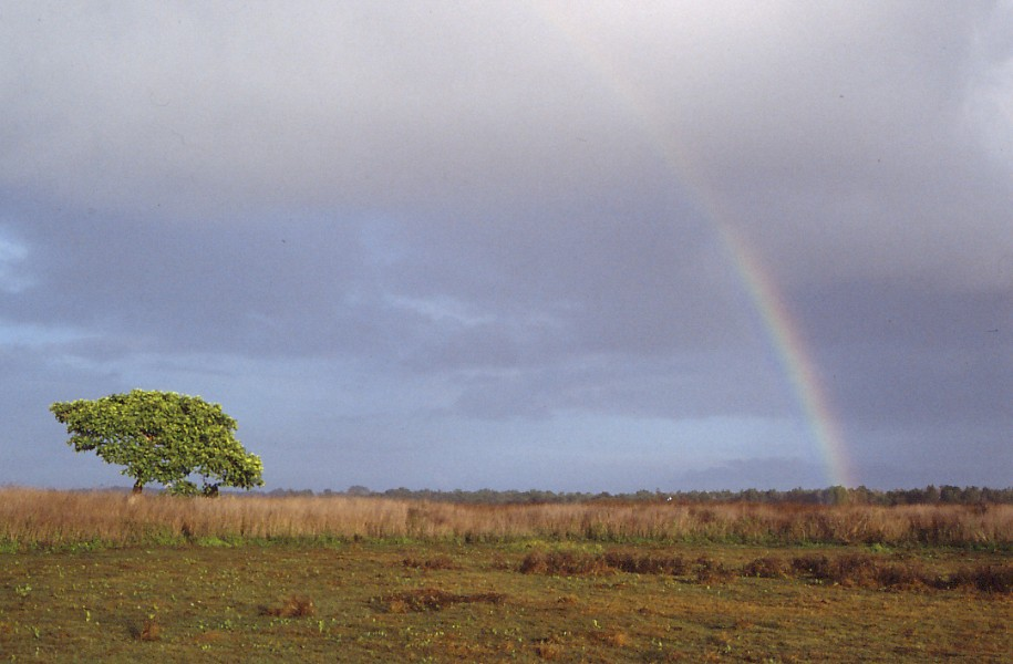 Early morning rainbow in the Wasur National Park, West Papua (Irian Jaya) - August 1994.